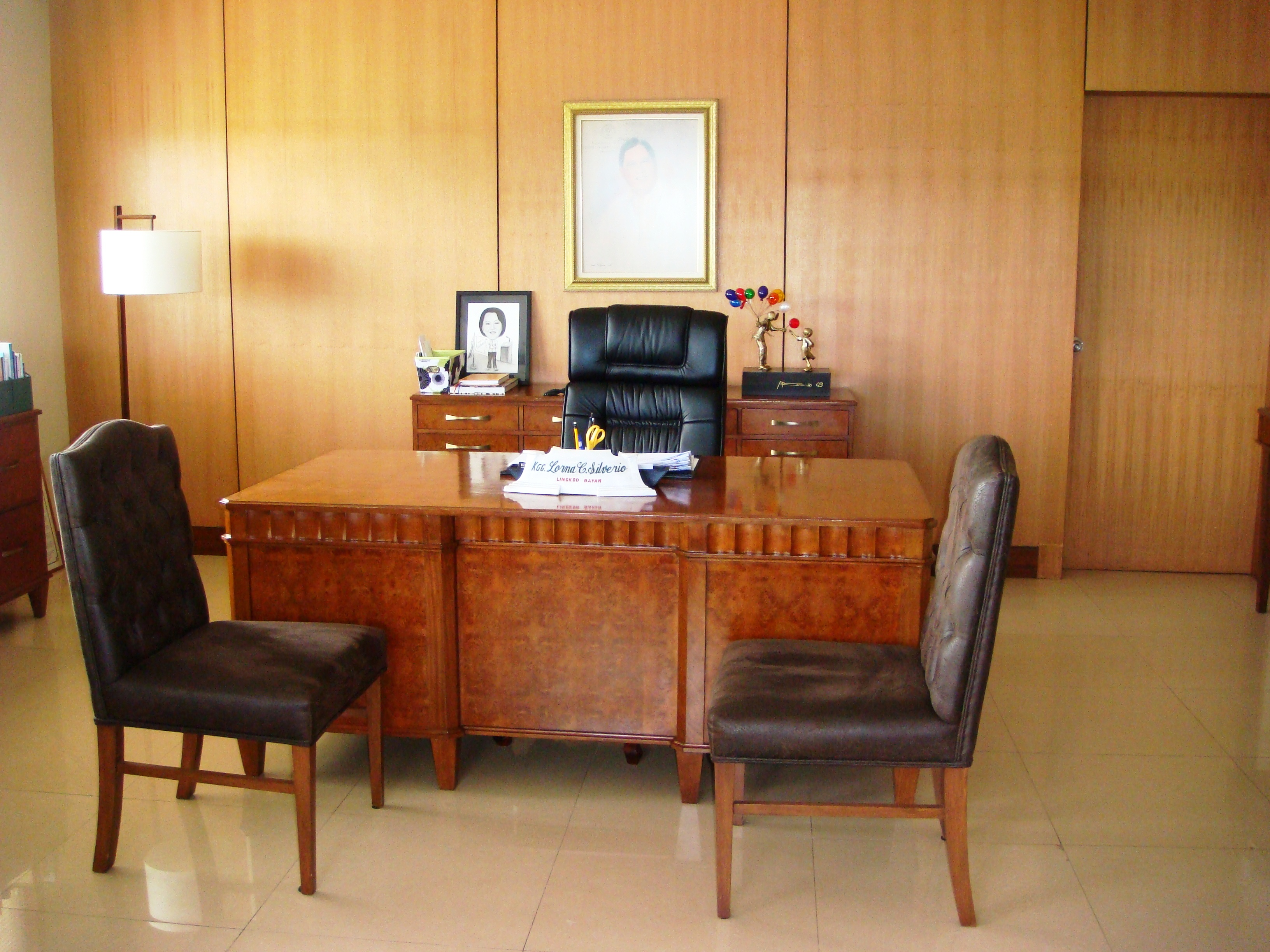 Office of the Mayor (Lorna C. Silverio)[1]